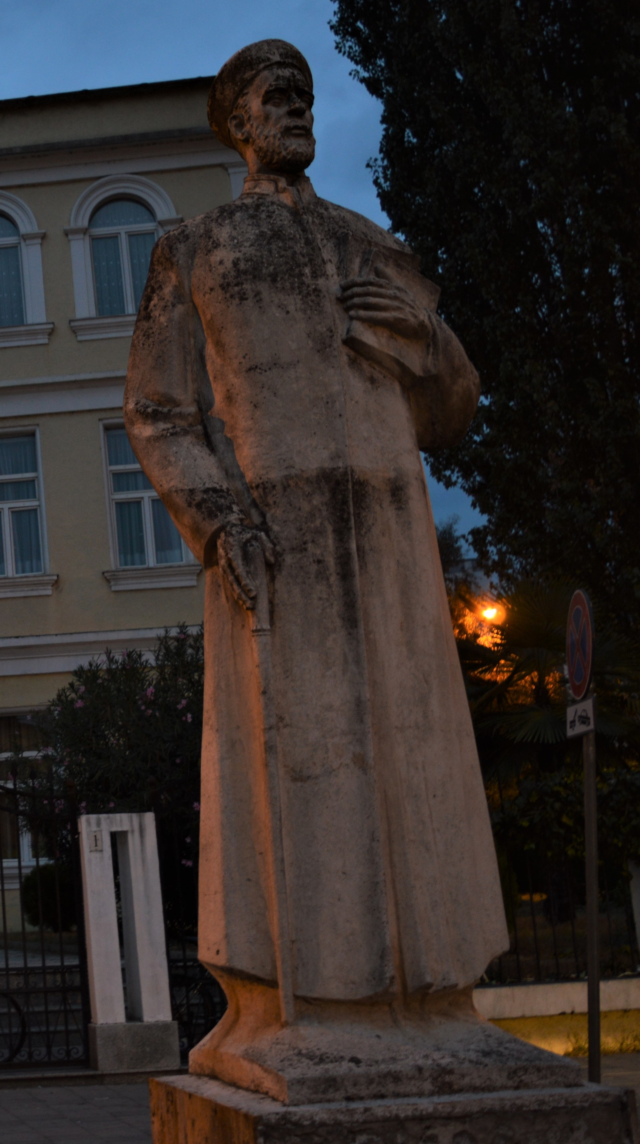 The Tirana Medrese with the statue of Hafiz Ibrahim Dalliu